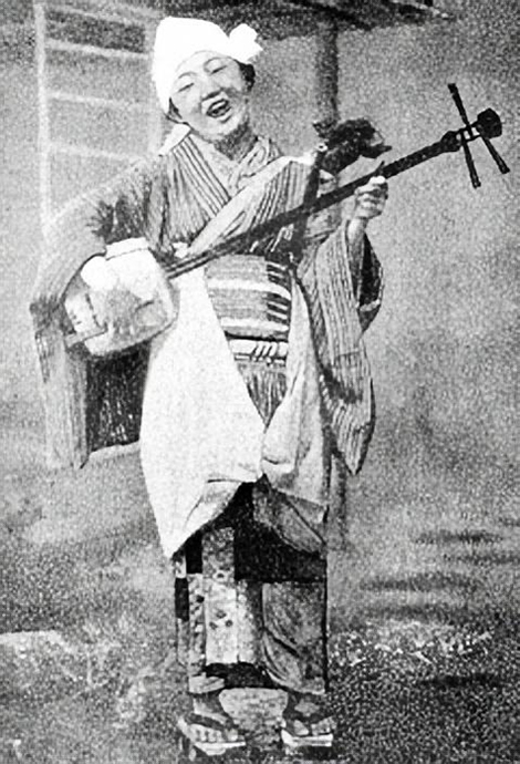 Japanese folkwoman playing shamishen, 1904 photo from collection of Christopher Wagner